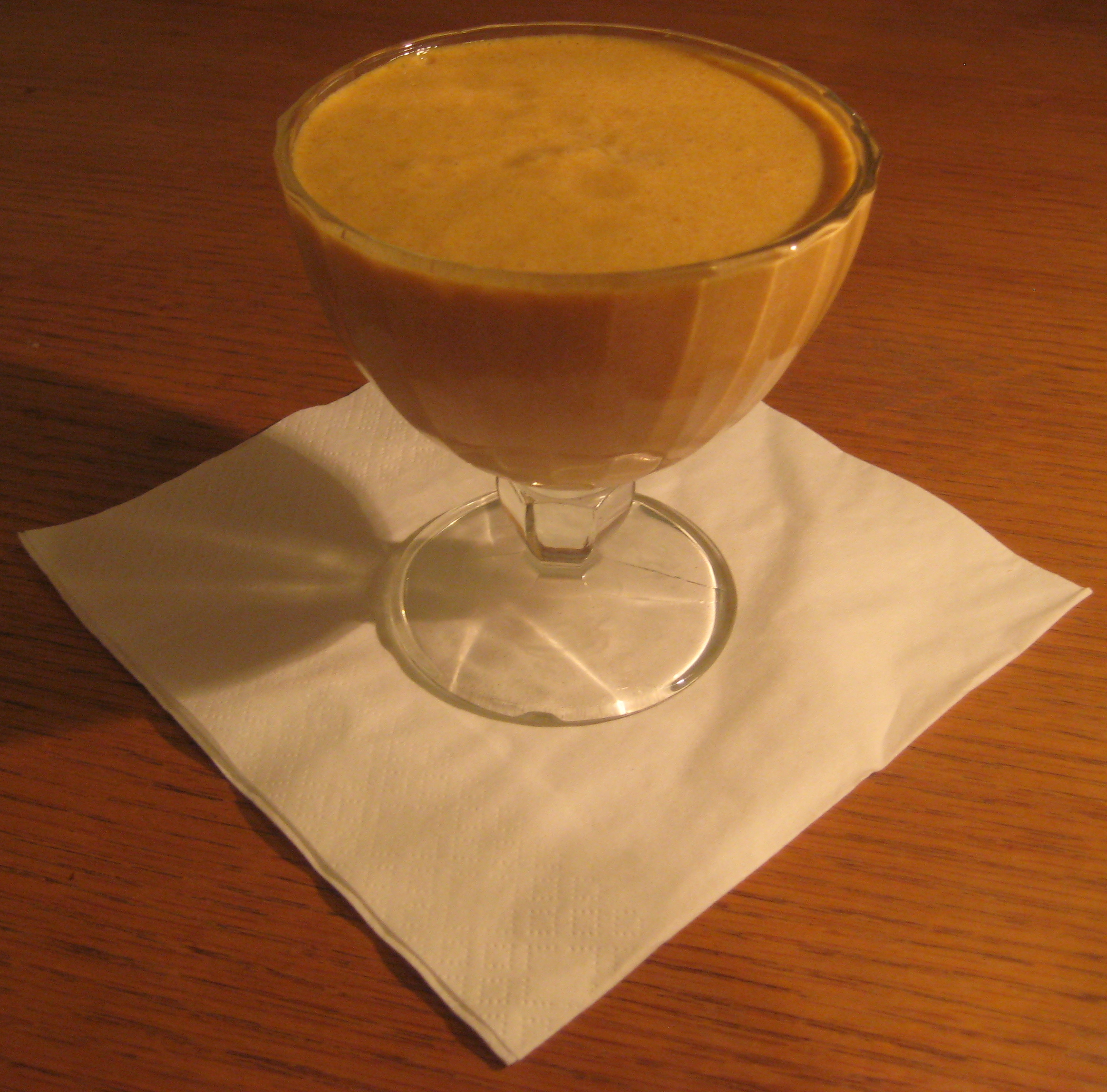 A serving of butterscotch flavor Angel Delight.